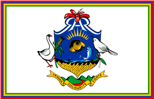 Flag of Rodrigues island.